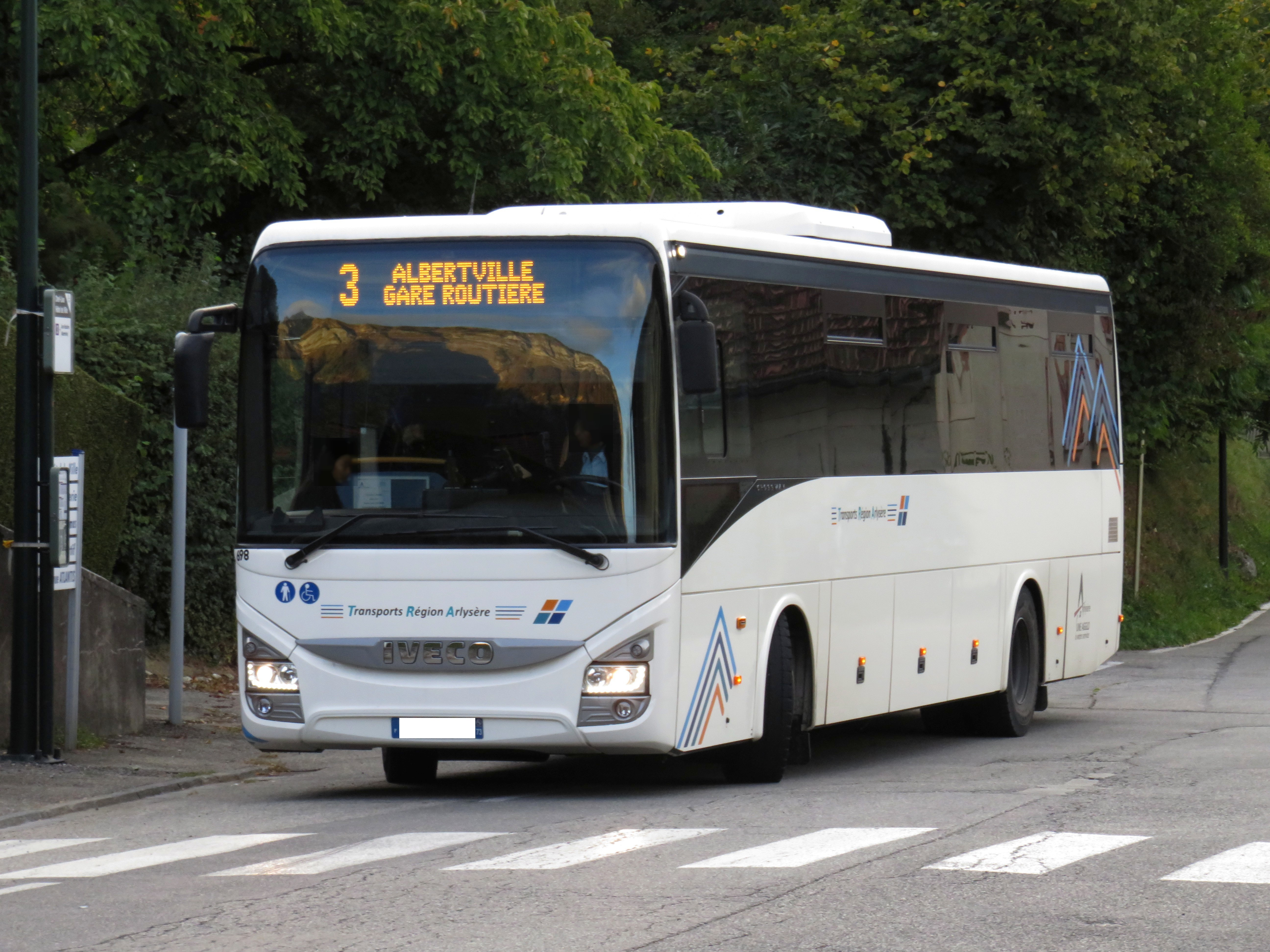 An Iveco Crossway (n°698 of Transdev Savoie), carrying out the line 3 of the bus network Transports Région Arlysère — Soney, Ugine↔Gare routière, Albertville — and stopped at the call Chef-Lieu Hôtel de Ville (Ugine, France) on October 3, 2018.